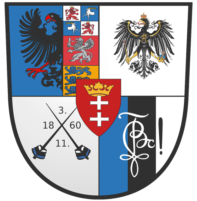 Baltica-Borussia-Waffen